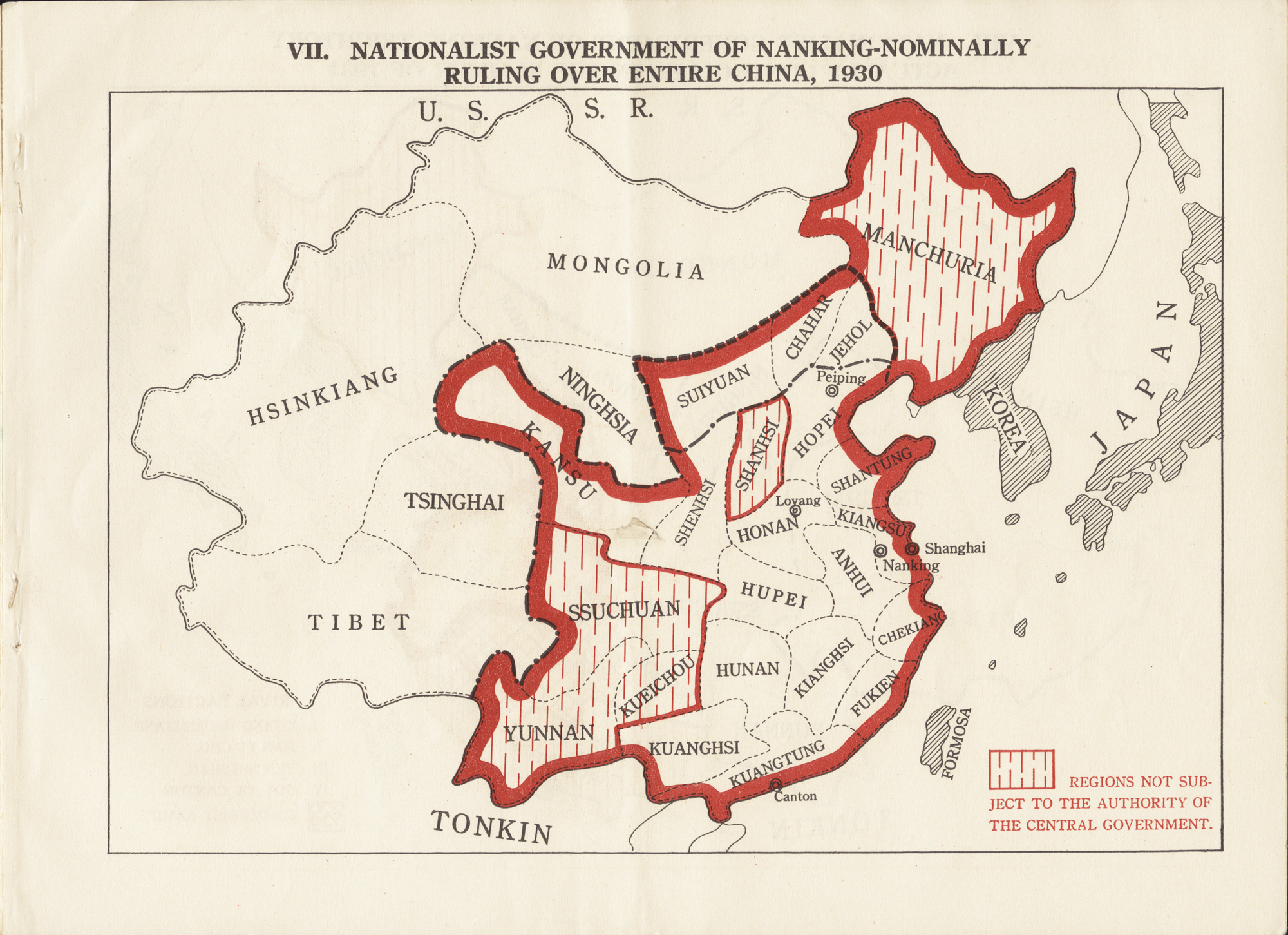 Zoom into this map at . Author: Japan. Publisher: s.n. Date: [1931?] Location: China Call Number: G2305.J3 1931x